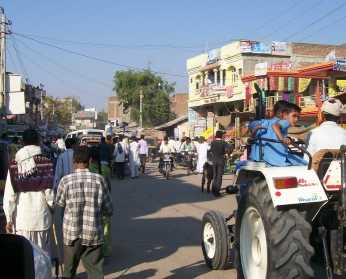 Main Bazaar Tharad